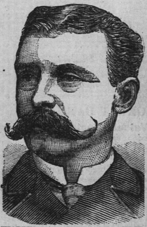 Charles Stewart Voorhees (Washington Territory Congressman)